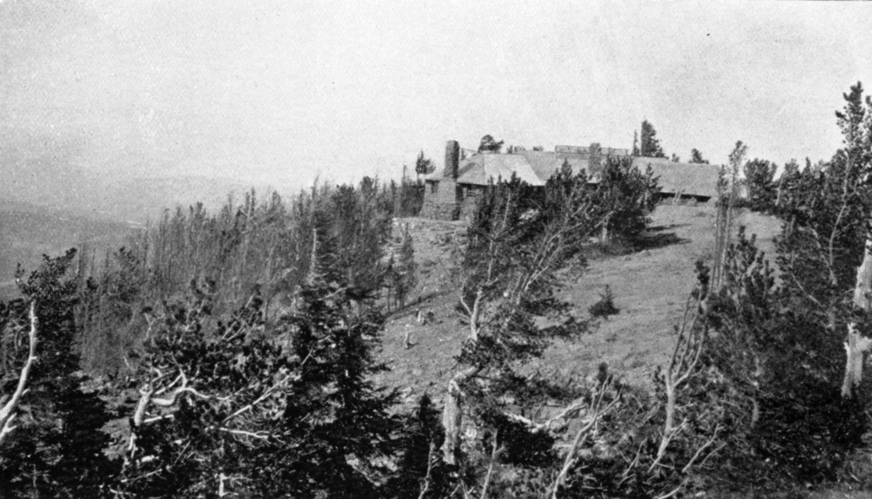 p. 190 from scans